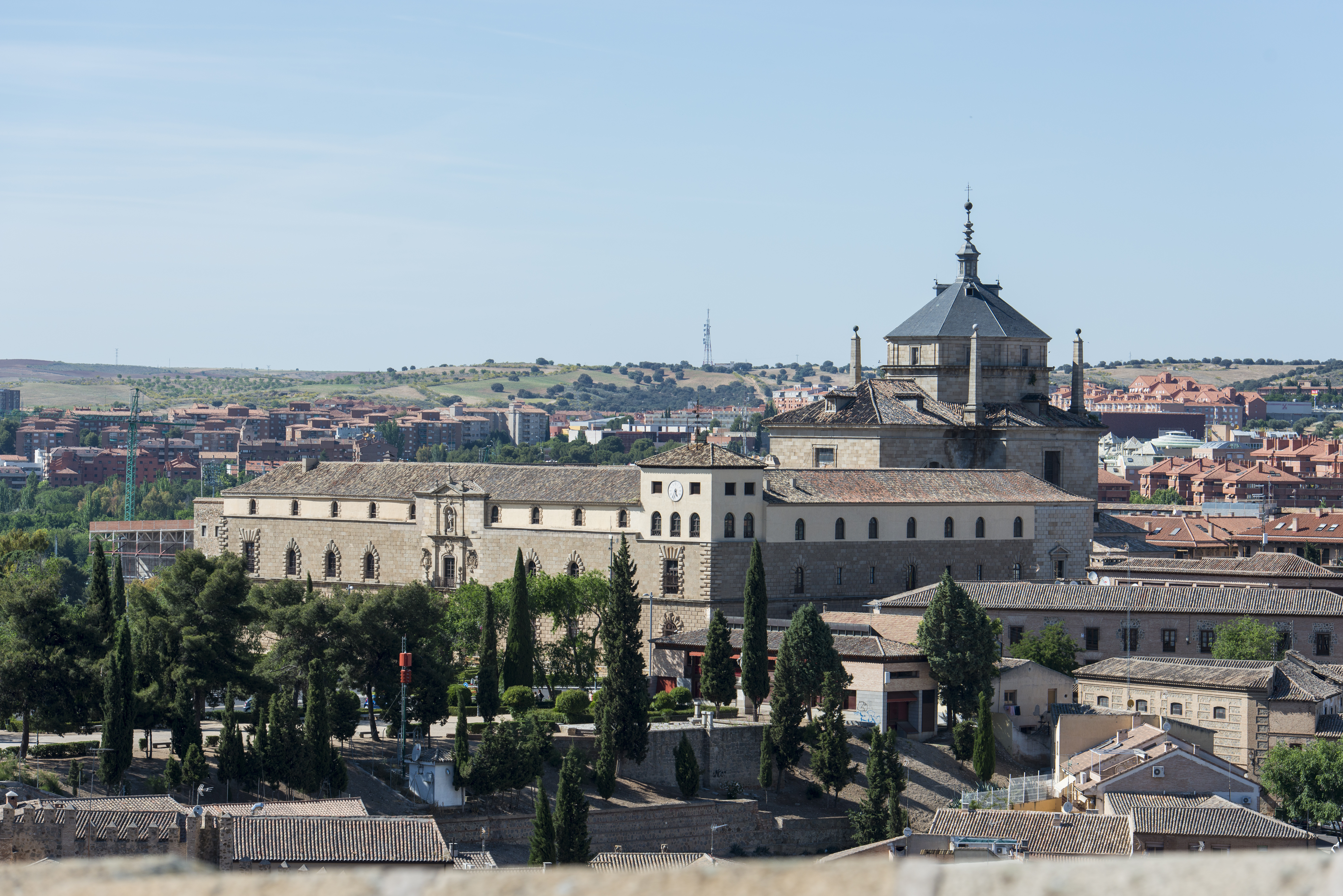 Hospital de Tavera, Toledo, Spain 2014